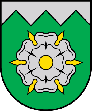 Coat of arms of Tukuma novads, Latvia